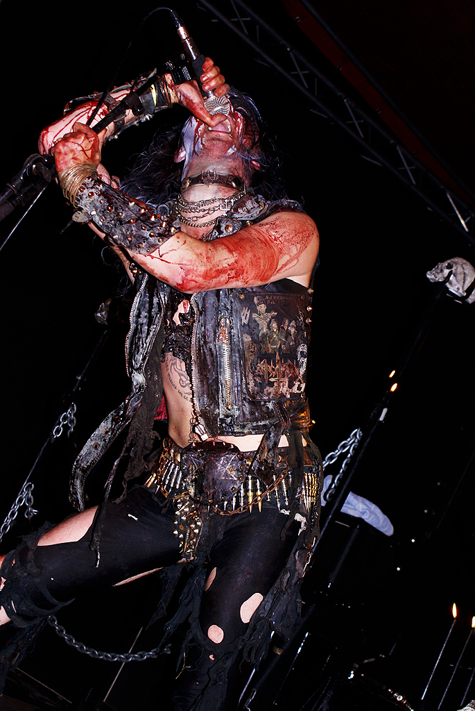 Watain live at Under The Black Sun Festival 2007.